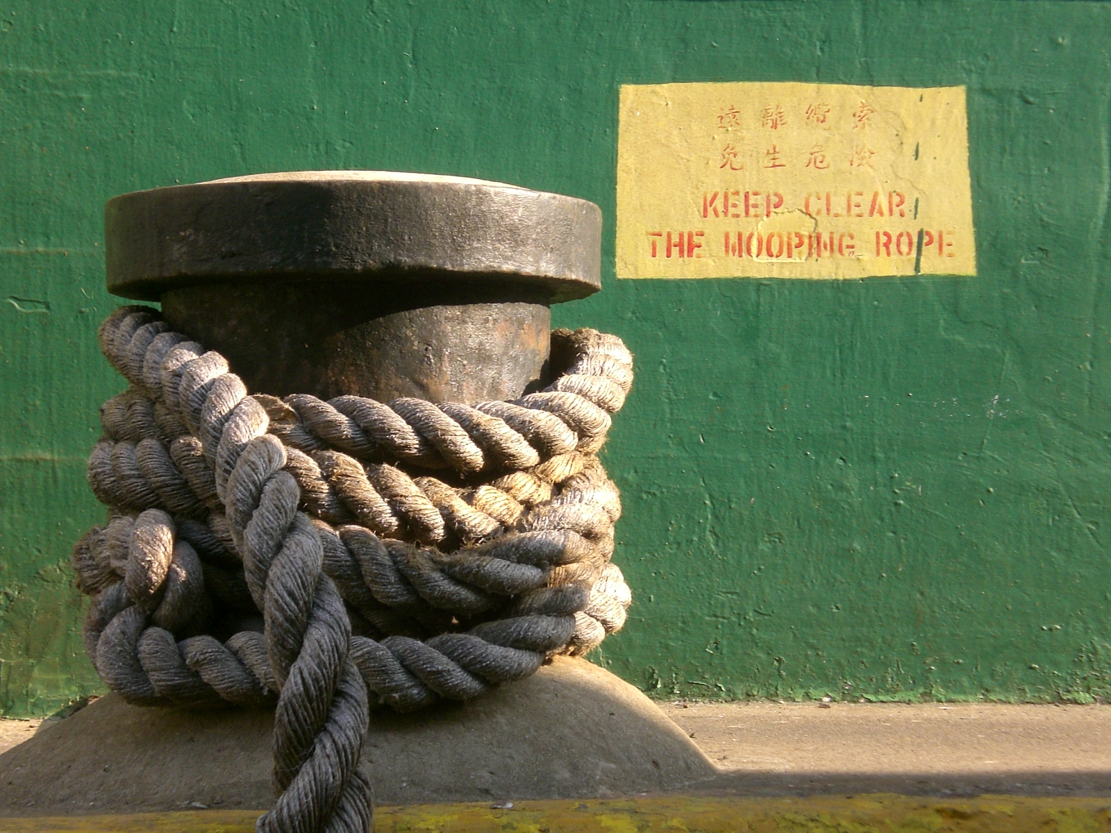 天星小輪zh:碼頭